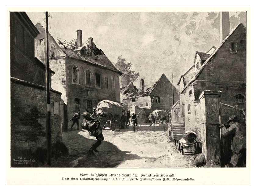 Picture of Felix Schwormstädt, german painter who created illustrations of the first world war for german magazins "Illustrierte Zeitung". The pictures contain descriptions at the bottom.